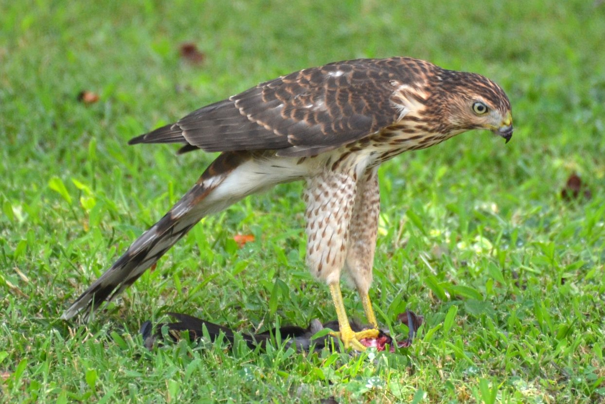 At lunch today I had just filled the bird feeders and some Grackles came in - suddenly the large bird dove in a grabbed one.This has been identified as a Cooper's Hawk (thank you ). He landed in the neighbors frontyard to eat his catch. Here is a link